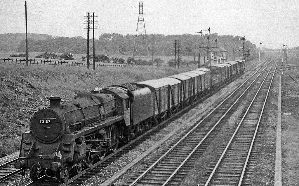 Up Goods train at Stoneyford Junction Box, Erewash Valley main line. View northward, towards Chesterfield etc. This Box was between Langley Mill (to the south) and Codnor Park; the 'junction' was only to some sidings [as far as I am aware]. However, this four-track main line was very busy - until the 1980s when coal-mining virtually ended - with traffic between the many collieries along the Erewash Valley and branches to/from Toton Yard, as well as with north/south freight traffic on the ex-Midland trunk route linking London, Leicester, Nottingham etc. with Sheffield, Leeds etc. The locomotive is a BR Standard 5MT 4-6-0 No. 73137.